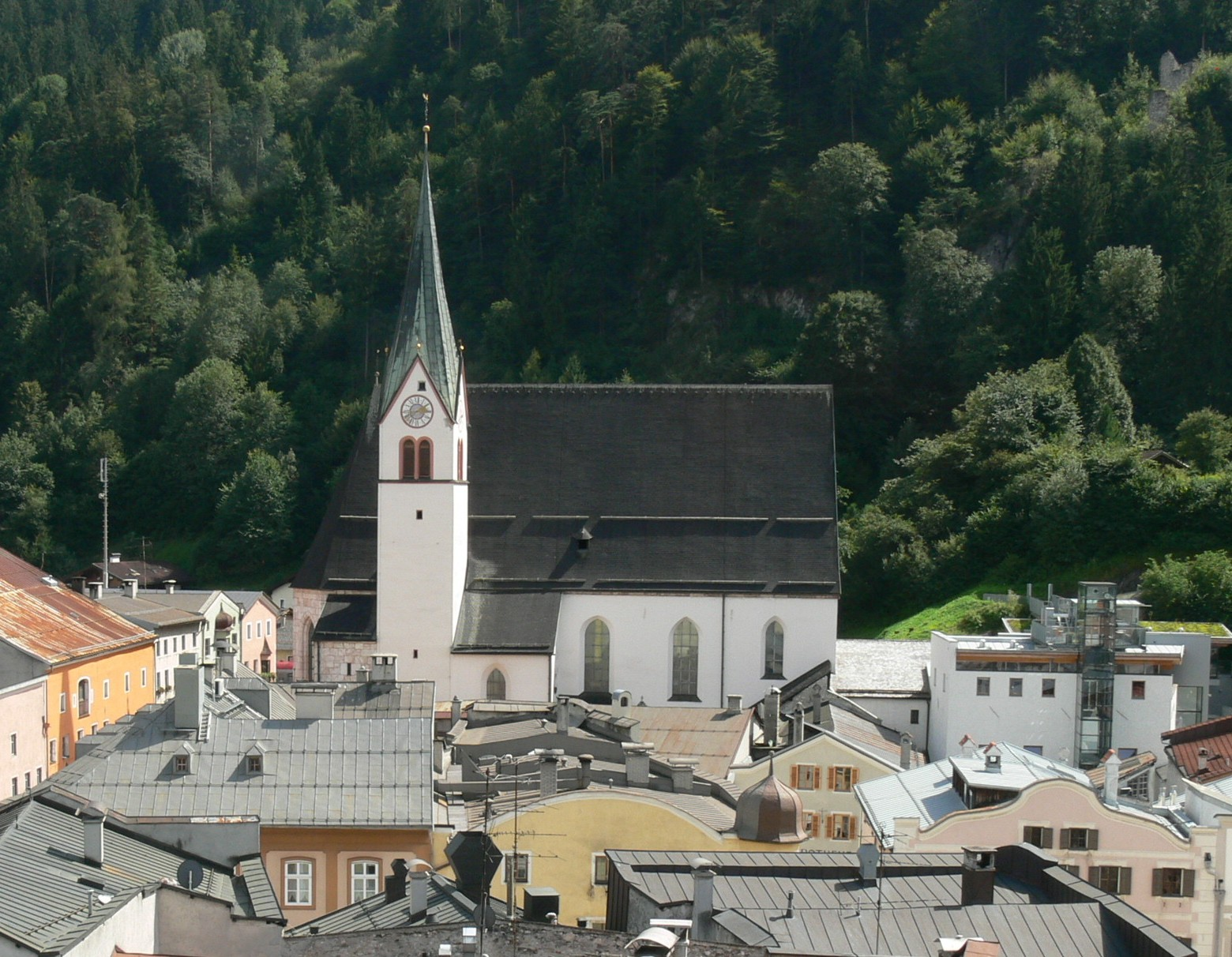 Rattenberg (Tyrol). View from Saint Augustine church tower to Saint Virgil parish church.